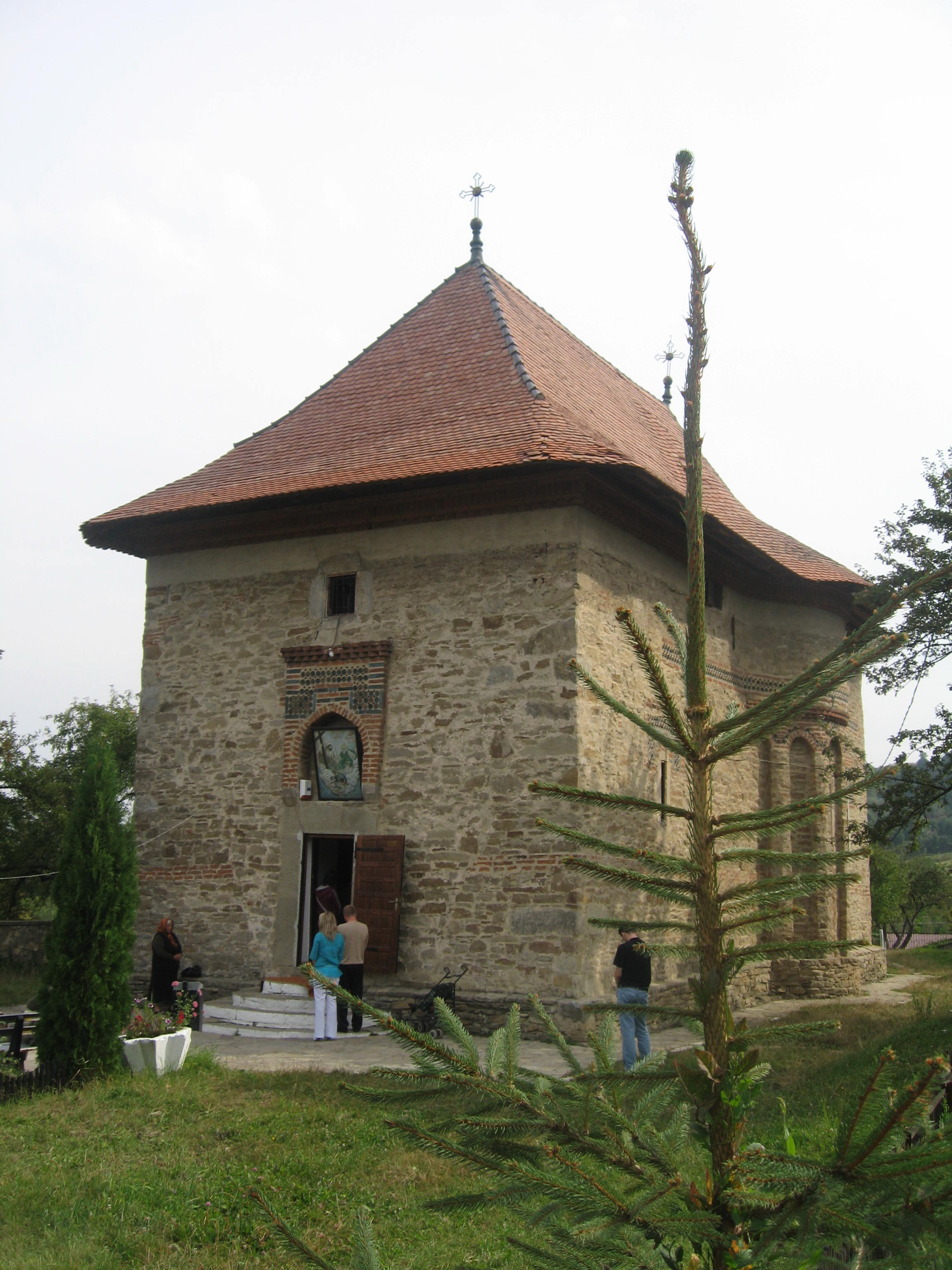 Biserica Sfânta Treime din Siret